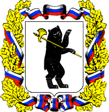 Yaroslavl, coat of arms (1993-1995)